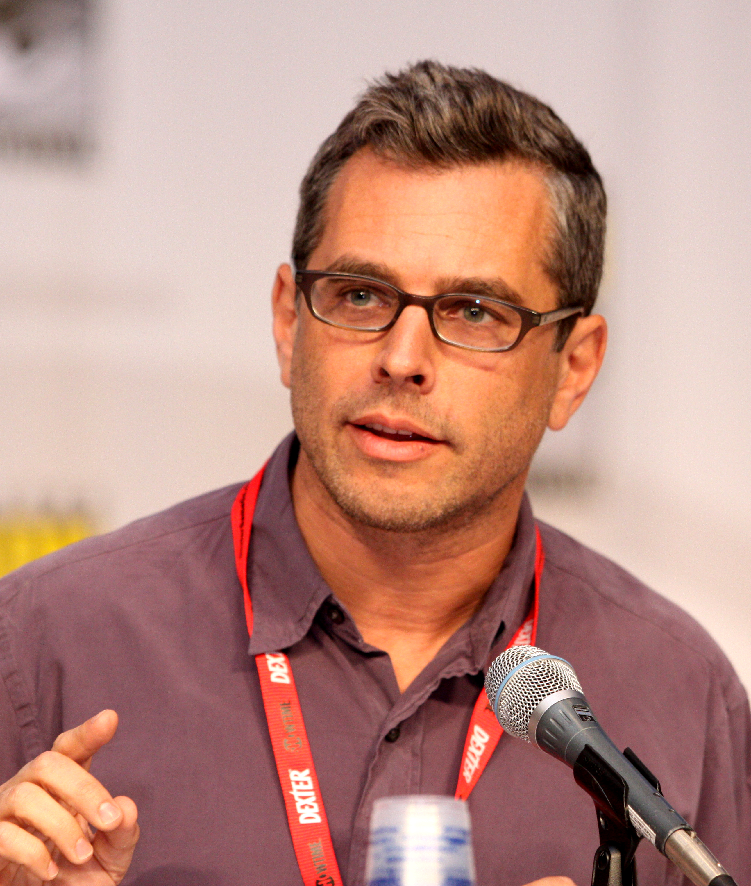 Richard Appel at the 2010 Comic Con in San Diego.